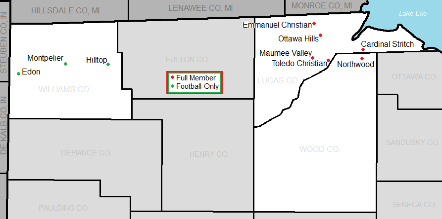 Map of TAAC members in 2011